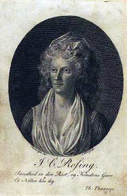 Portrait of Johanne Cathrine Rosing (1756-1853)